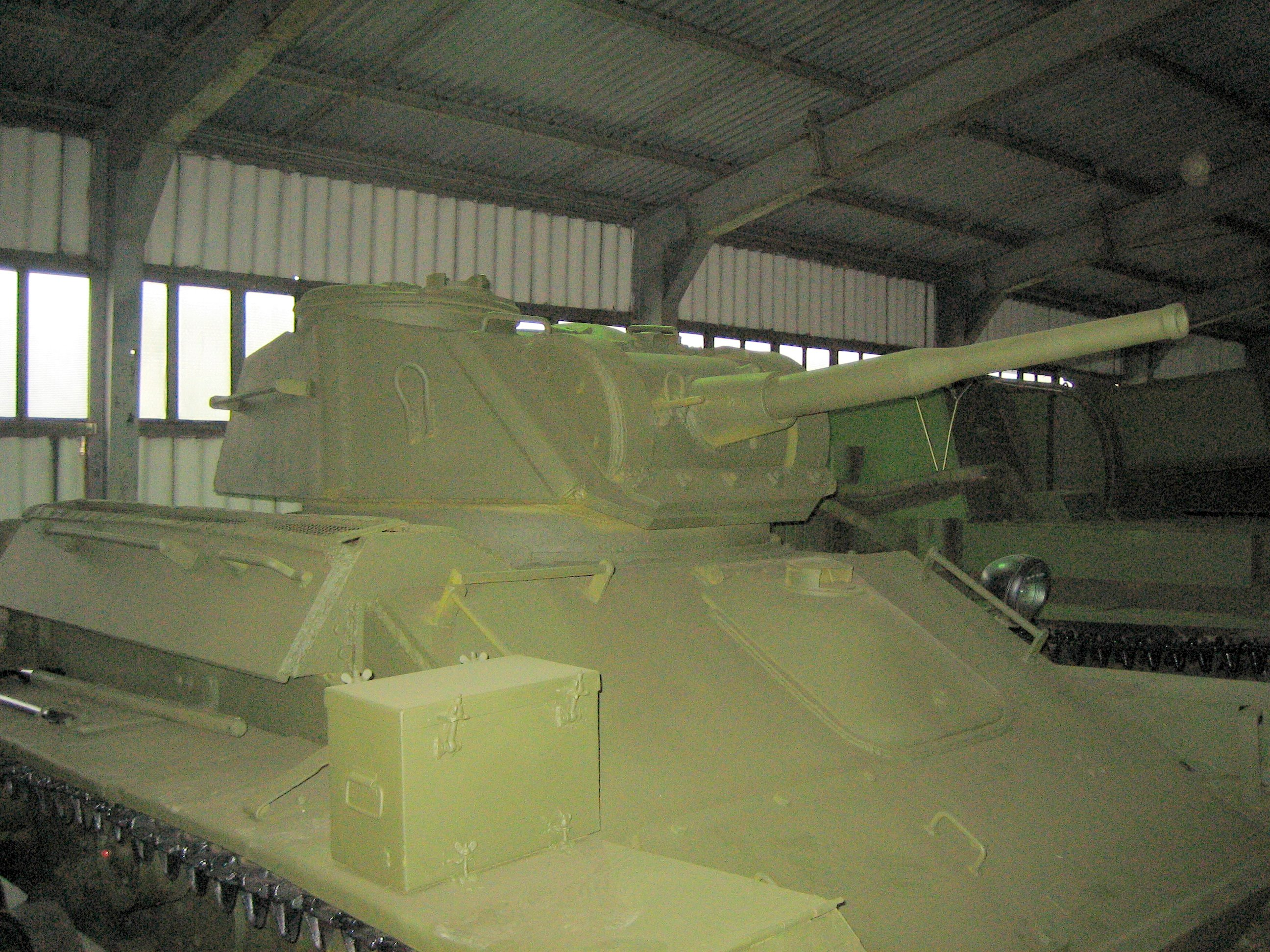 Soviet light infantry tank T-80, displayed in Kubinka Tank Museum. Photo taken on September 9, 2007. Source: Photo by me, User:Saiga20K.